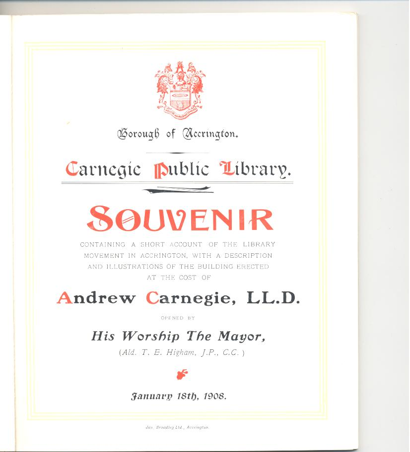 The first page of the souvenir brochure